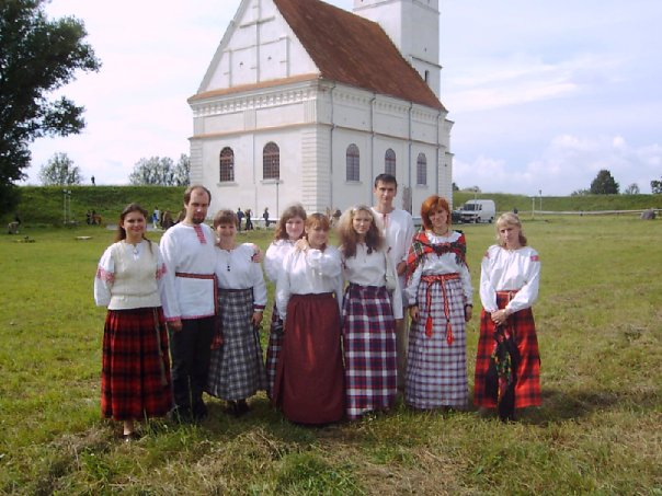 Belarus: Holy Festival in Zaslav.